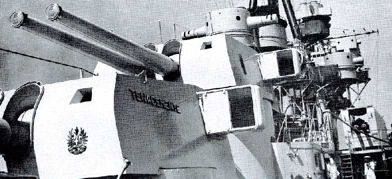 Stern turrets on Heavy Cruiser Zara. Note the rangefinders "Tenacemente" means "Tenaciously".